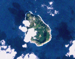 Landsat picture of Aogashima Island, Izu Islands, Japan.